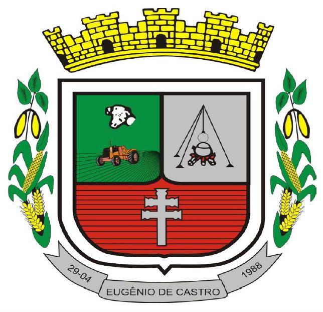 Coat of arms of the city of Eugênio de Castro, Rio Grande do Sul, Brazil.